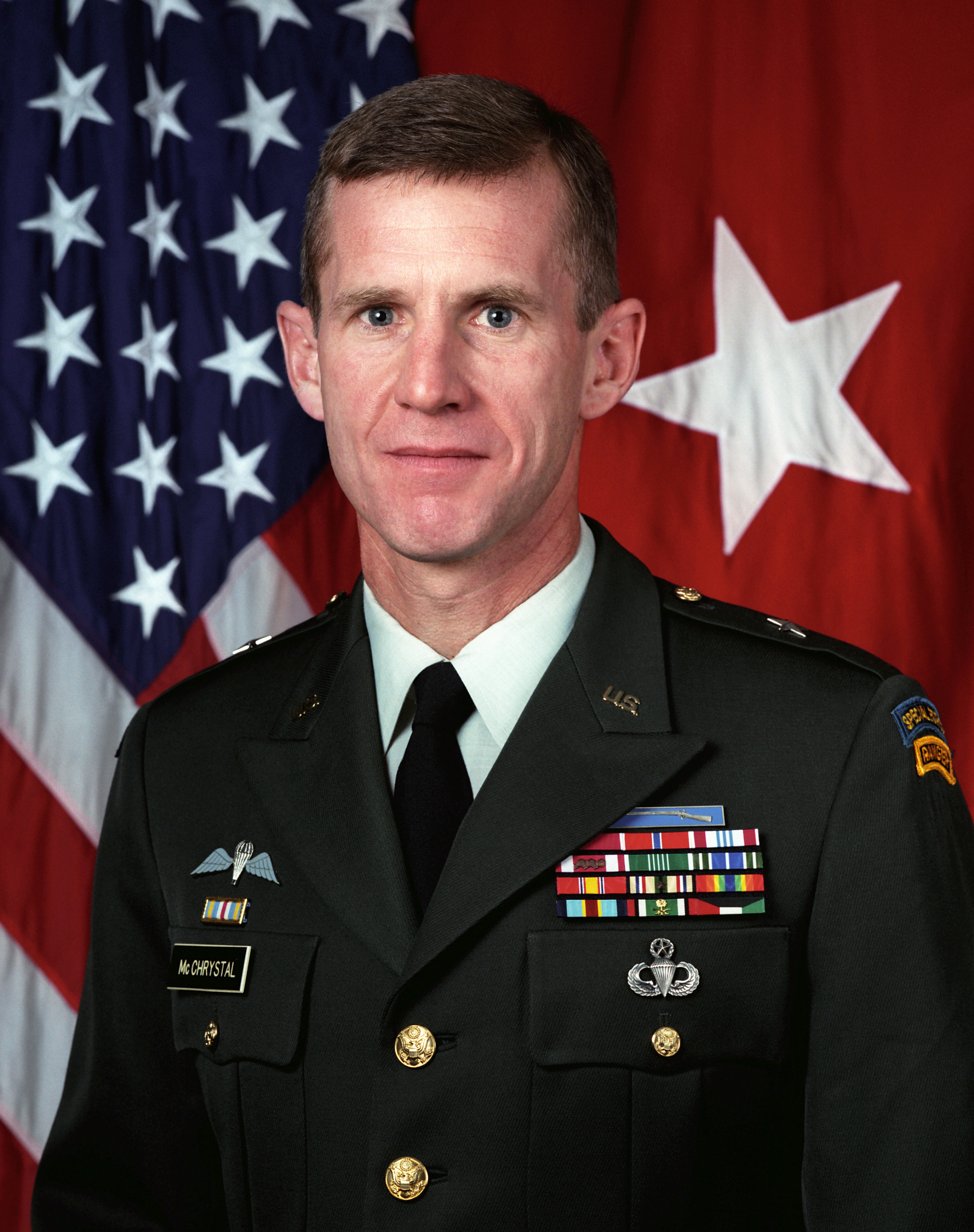 Brigadier General Stanley McChrystal, US Army